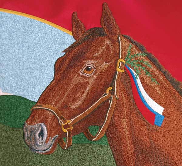 A detailed photo of an embroidery on an embroidered banner, showing the traditional chain stitch with the modern smooth shading embroidery techniques.